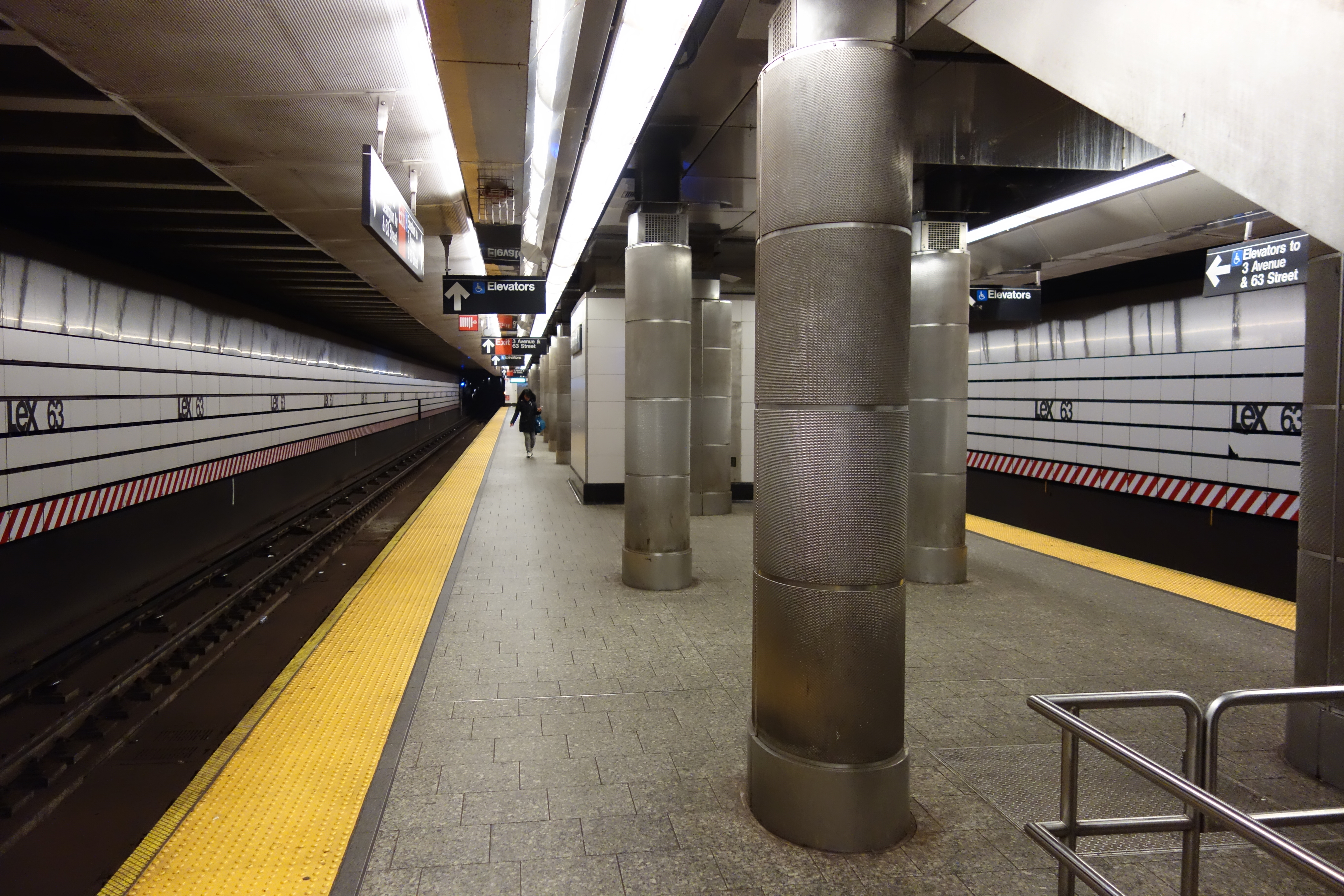 The Uptown and Queens (lower level) platform of the Lexington Avenue – 63rd Street subway station in the Upper East Side, Manhattan.